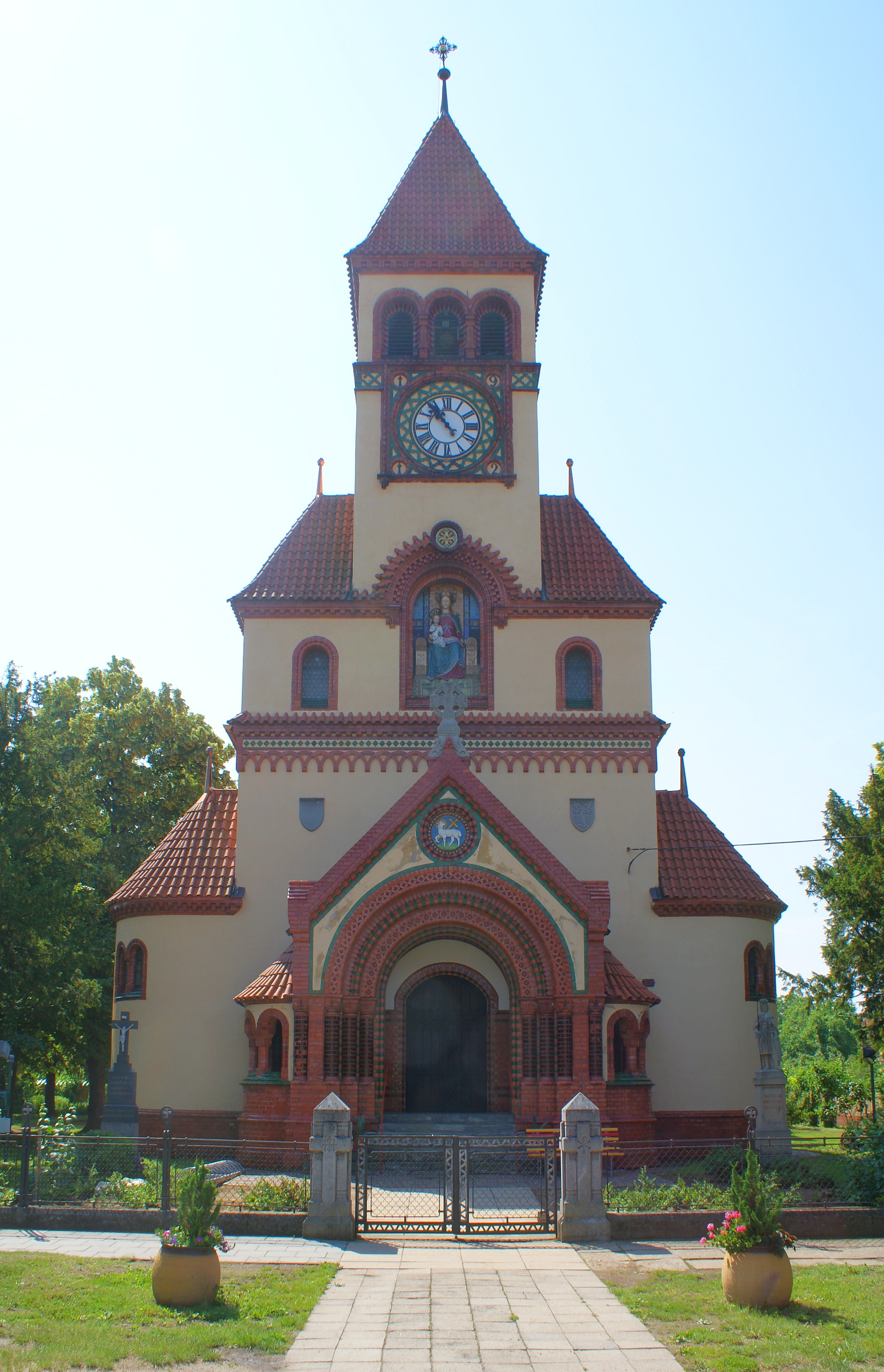 Ladná, a village in Břeclav District, Czech Republic, church of St Michael archangel.